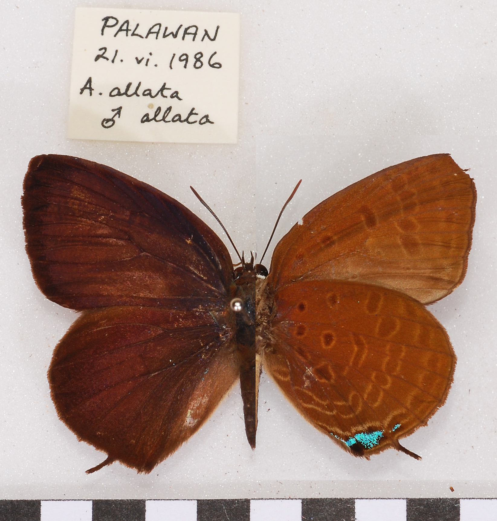 Arhopala allata allata, male, set specimen, Palawan, Alan Cassidy photo.